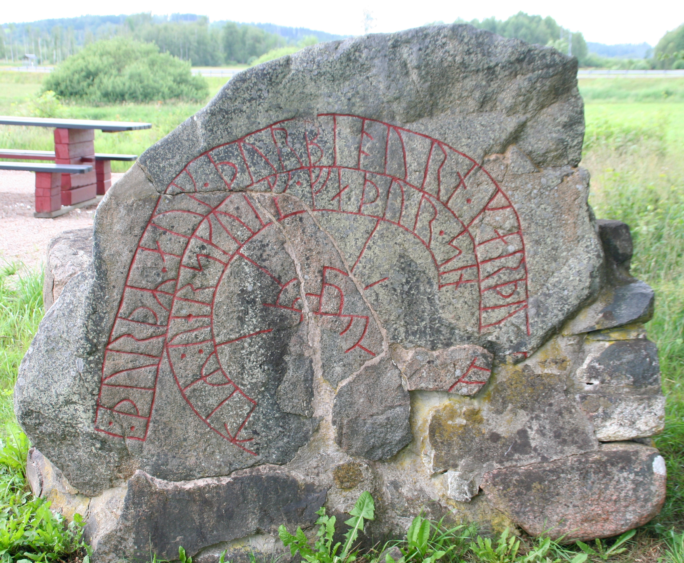 Runestone, Nederby, by the river Kroppån near road 127. The inscription: DURDR AUK DURBIOURN KARDU BRU DASI EFTIR UERSKULF FADUR SIN The interpretation: Tord and Torbjørn made this bro after Verskulv, his father